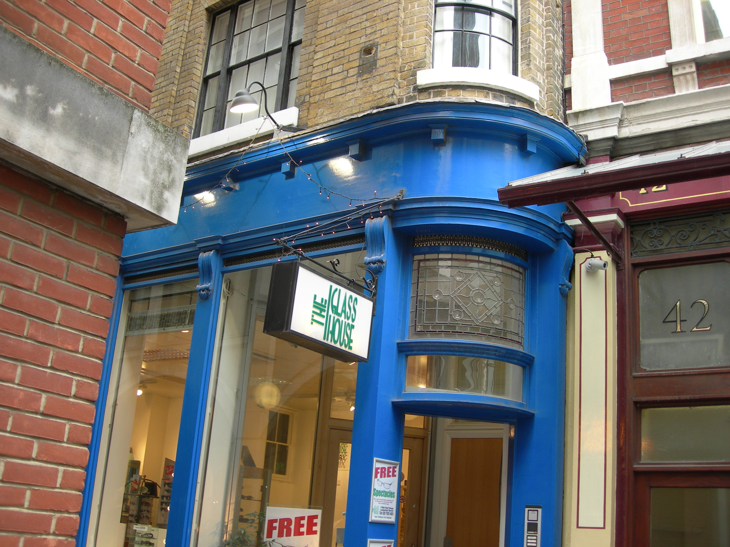 Building in London that was used as exterior of The Leaky Cauldron in the first Harry Potter film. This building is on Bull's Head Passage, EC3; a small alley off Gracechurch Street on the side of Leadenhall Market.